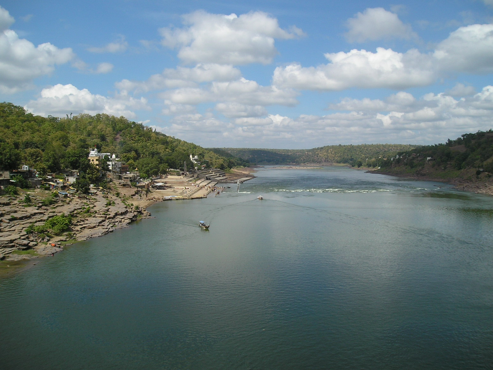 Omkareshwar1